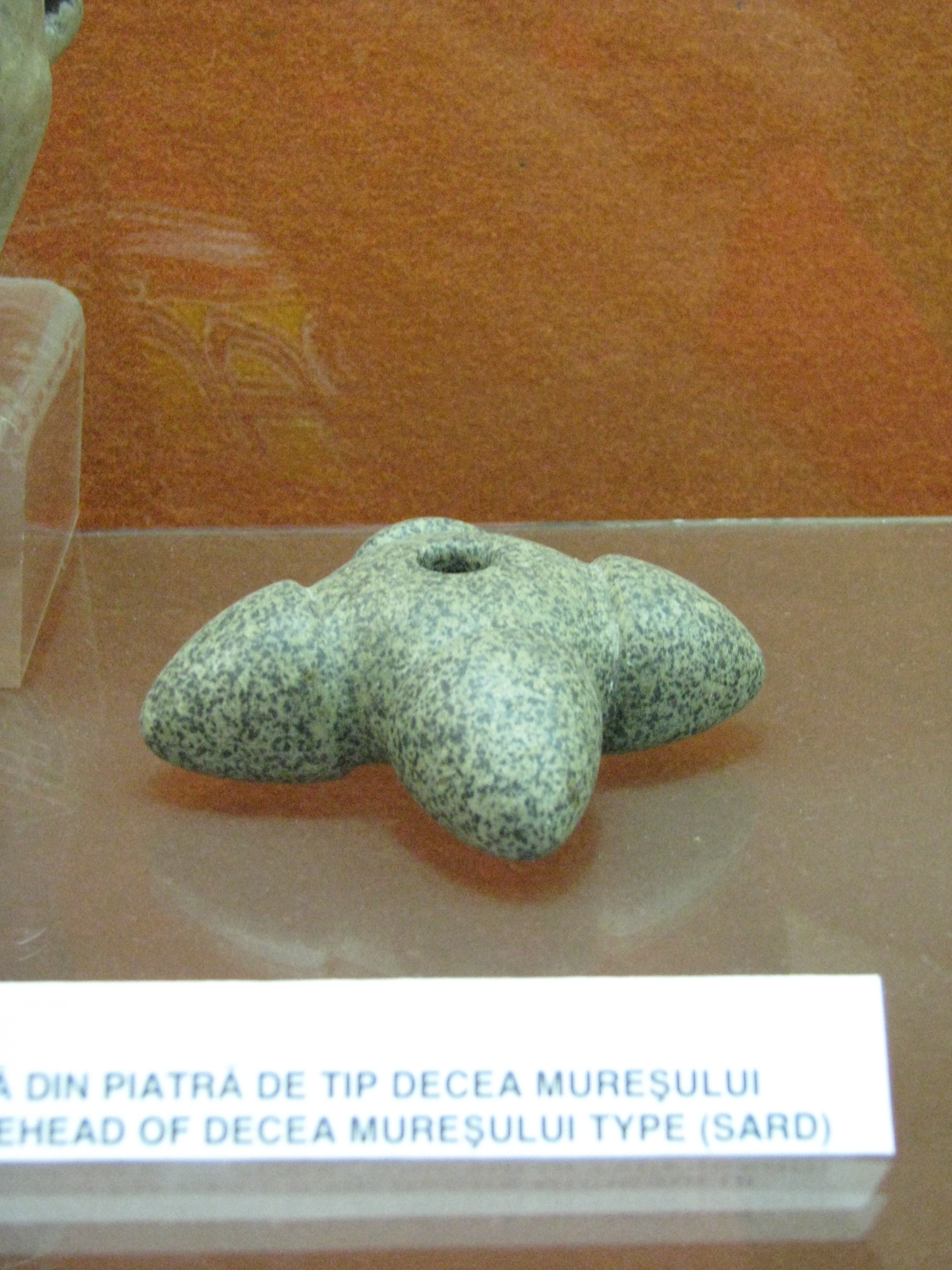 Stone mace head of Decea Mureşului type from Şard, Alba Country, Romania